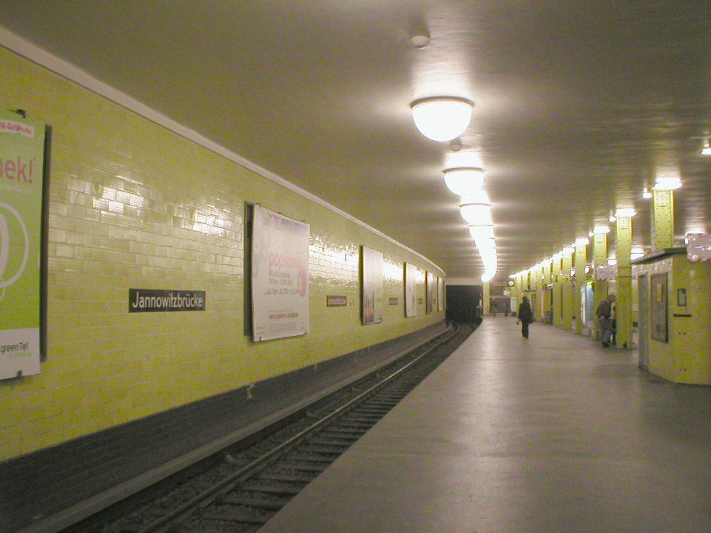 Platform of the Berlin-U-Bahn-station Jannowitzbrücke